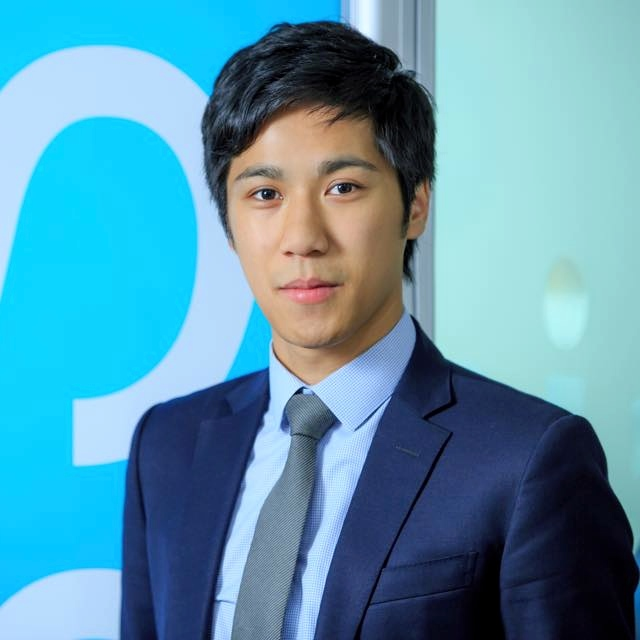 This is the portrait of Samuel Chan Sze Ming.